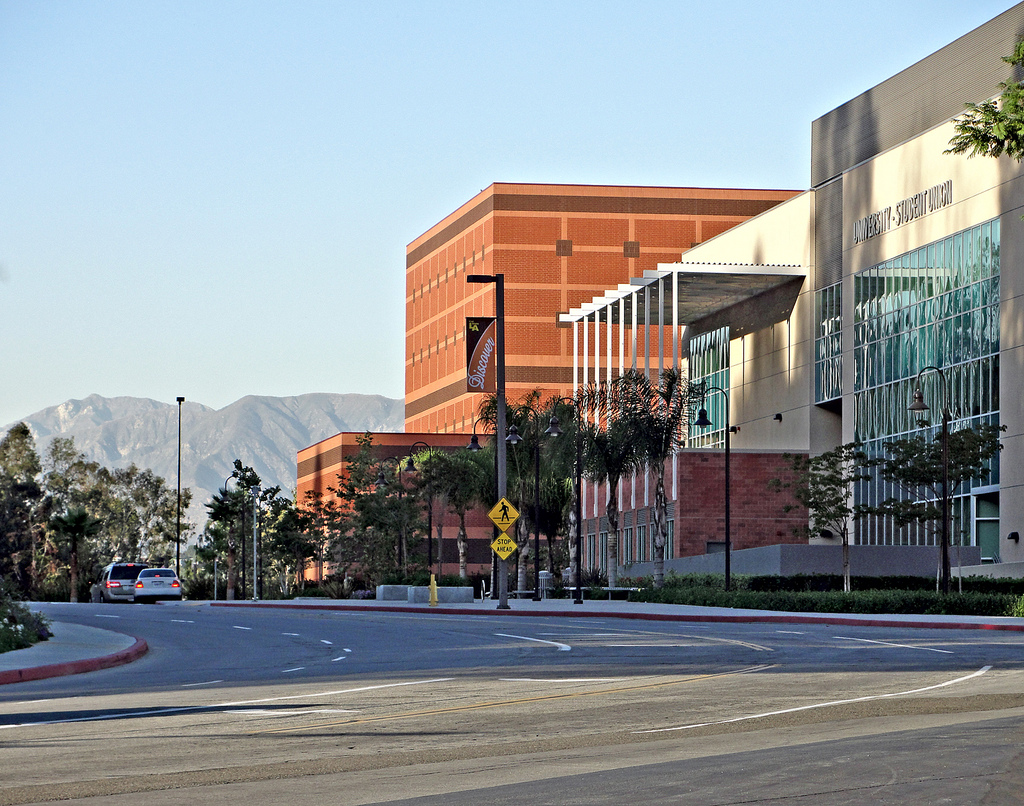 Cal State Uni, LA Student Union bldg, Located in Northeast region of Los Angeles looking towards Pasadena, CA.